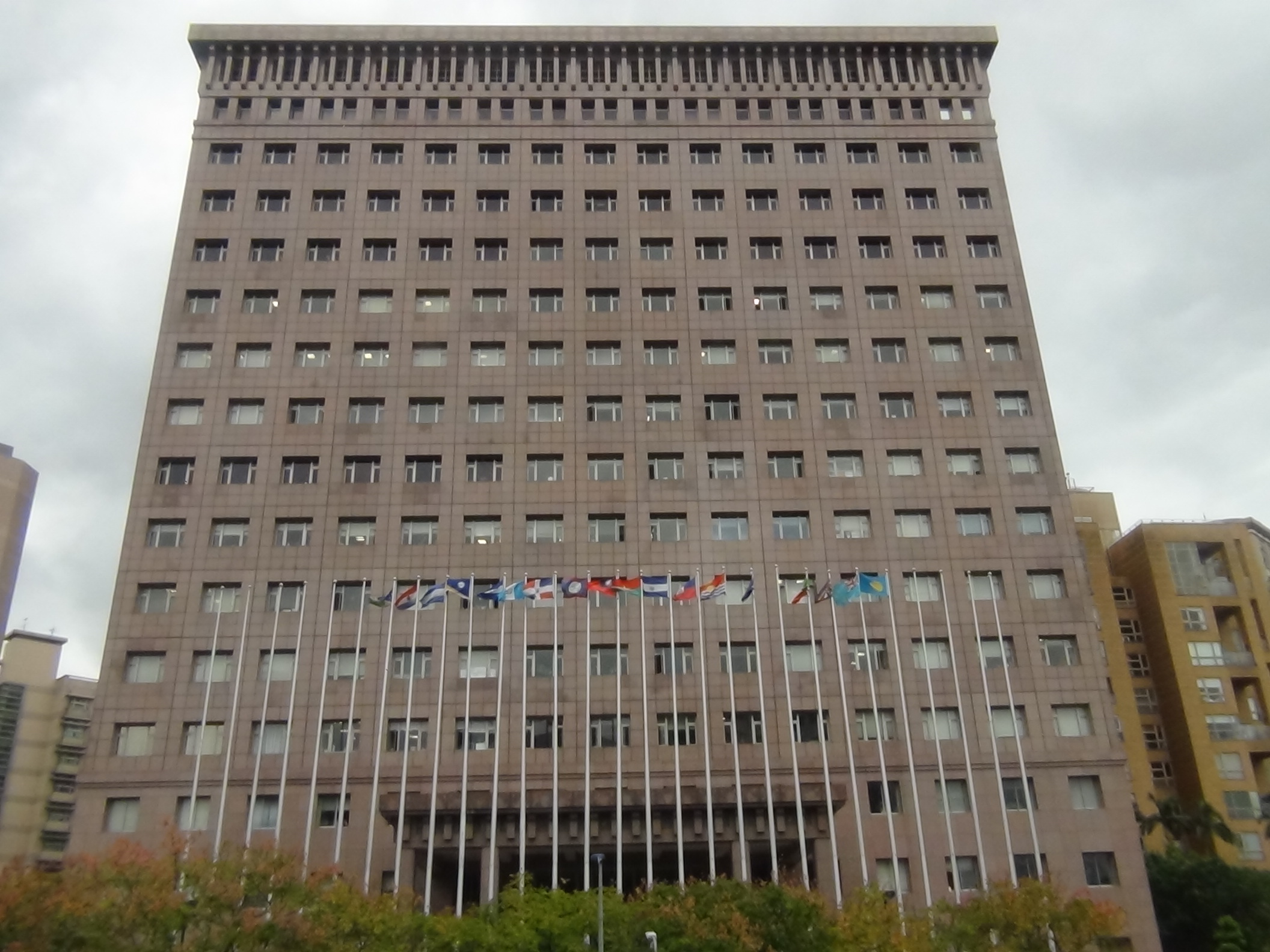 The Diplomatic Quarter (使館特區) of Taiwan (中華民國), as seen from Lane 101, Tianmu West road (天母西路101巷) on 31 October 2017, around 1PM (Picture 3). Seventeen national flags from left to right: Solomon Islands, Republic of Paraguay, Republic of Nicaragua, Republic of Honduras, Republic of Guatemala, Dominican Republic, Belize, Republic of China (Taiwan), Burkina Faso, Republic of El Salvador, Republic of Haiti, Republic of Kiribati, Republic of Nauru, Federation of Saint Christopher and Nevis, Kingdom of Swaziland, Tuvalu, Republic of Palau.